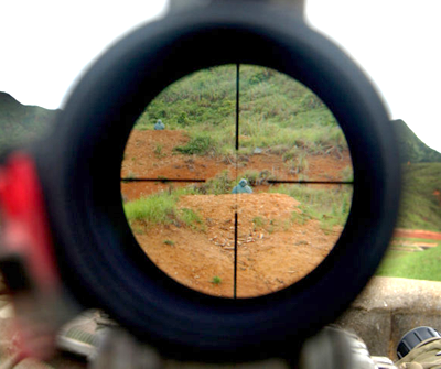 Camp Hansen, Okinawa, Japan (May 21, 2004) - A Special Reaction Team (SRT) member looks through the scope of a sniper rifle to help enlarge targets. Training targets are often hundreds of meters away and using the sniper rifle scope ensures the sniper has a clear shot at his intended target.